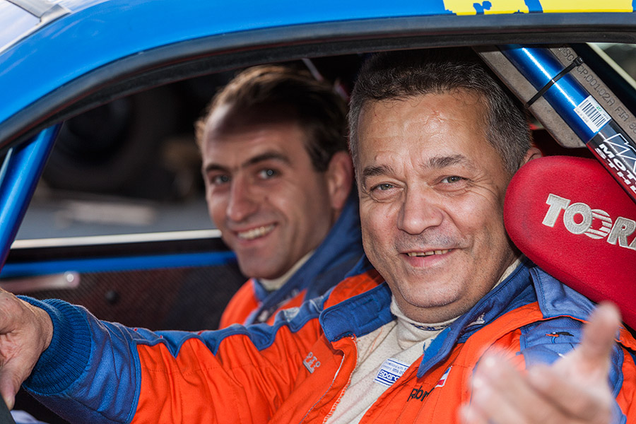 Vladica Rabrenović i njegov suvozač nakon završetka Reli Zlatibora